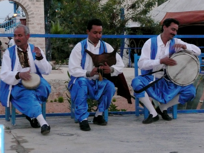 Group of musicians from Djerba (Tunisia)